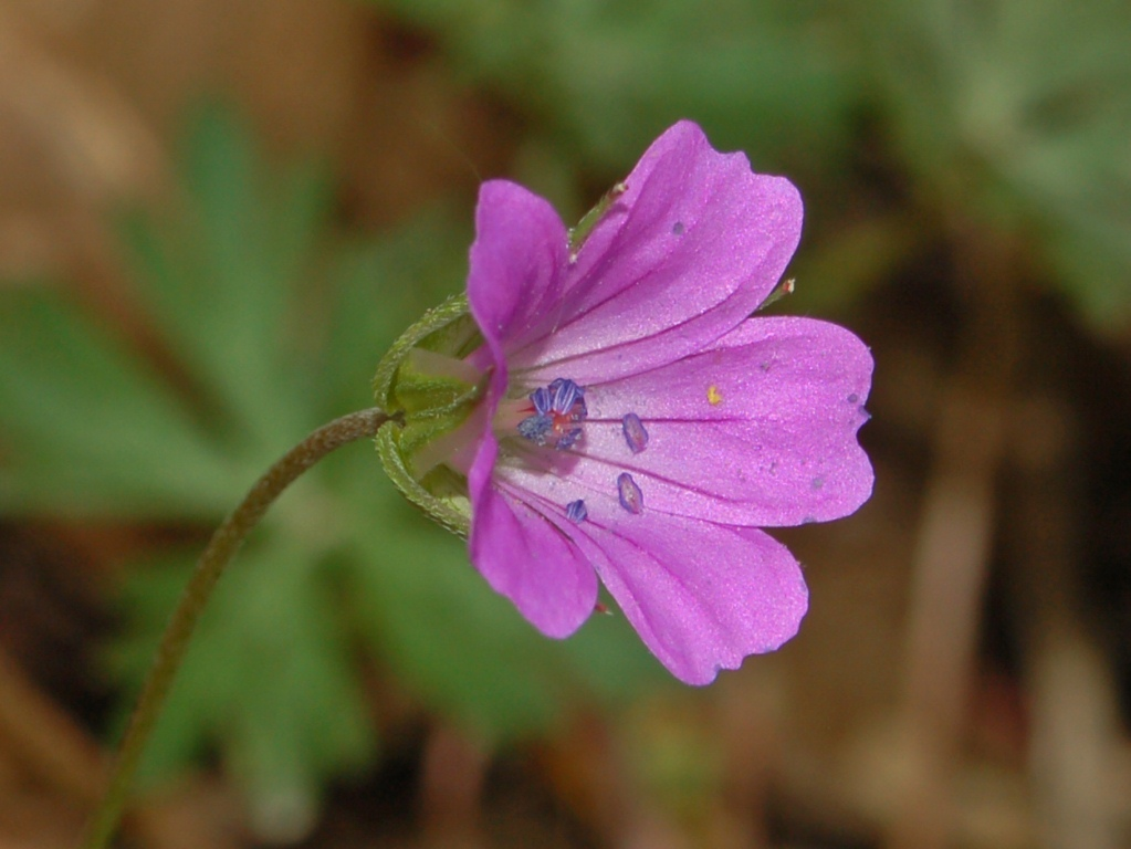 Geranium columbinum - Val Noci, Genova, Italy